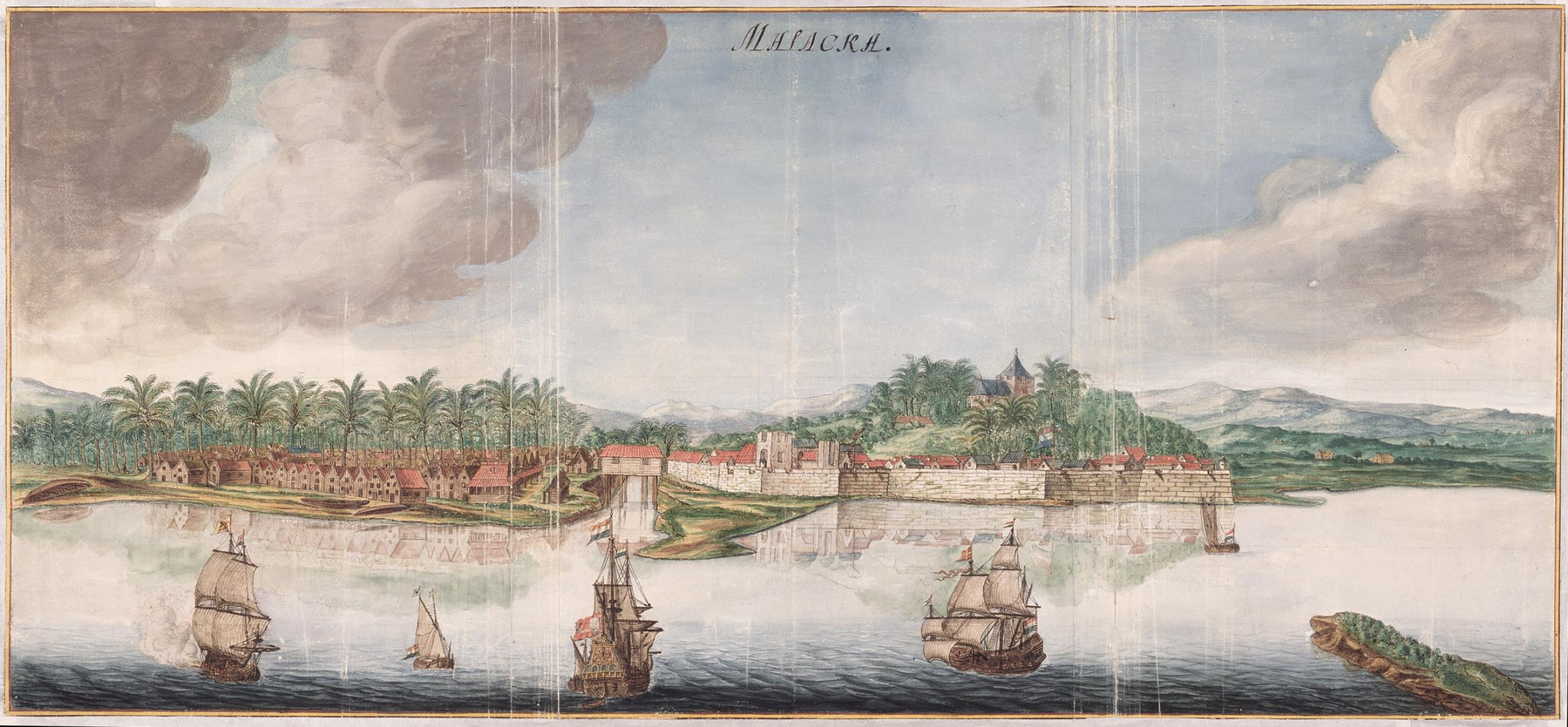 Title in the Leupe catalogue (NA): Gezicht op de stad Malakka van de zeezijde. This corresponds entirely with the illustration rendered in Valentijn V, page 308. View of the city with ships in the foreground, and in the background, mountains. On the right the VOC fort is depicted. Cf. Österreichische Nationalbibliothek, Vienna, inv. nr. 39:15.